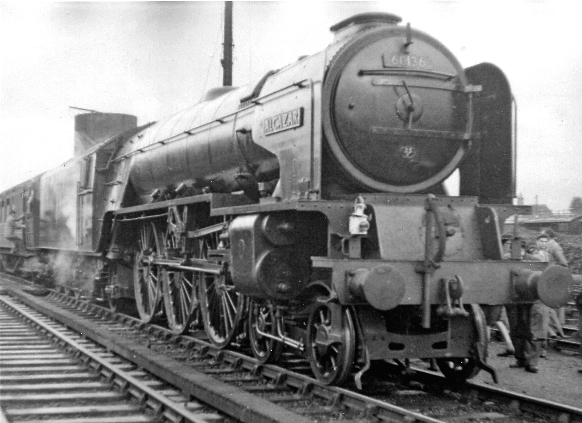 A1 Pacific heads Trains Illustrated Fenland Rail Tour at Sleaford. View eastward, towards Spalding on the ex-GN&GE March - Spalding - Sleaford - Lincoln - Doncaster main line, also ex-GN Lincoln - Boston line. The complex Tour took us from Liverpool Street to Norwich, then Cromer and over the M&GN via Melton Constable and South Lynn to Spalding, then via Sleaford and Grantham back to King's Cross. A1 4-6-2 No. 60136 'Alcazar' (built 11/48, withdrawn 5/63) took over here for the last leg via Grantham to London.